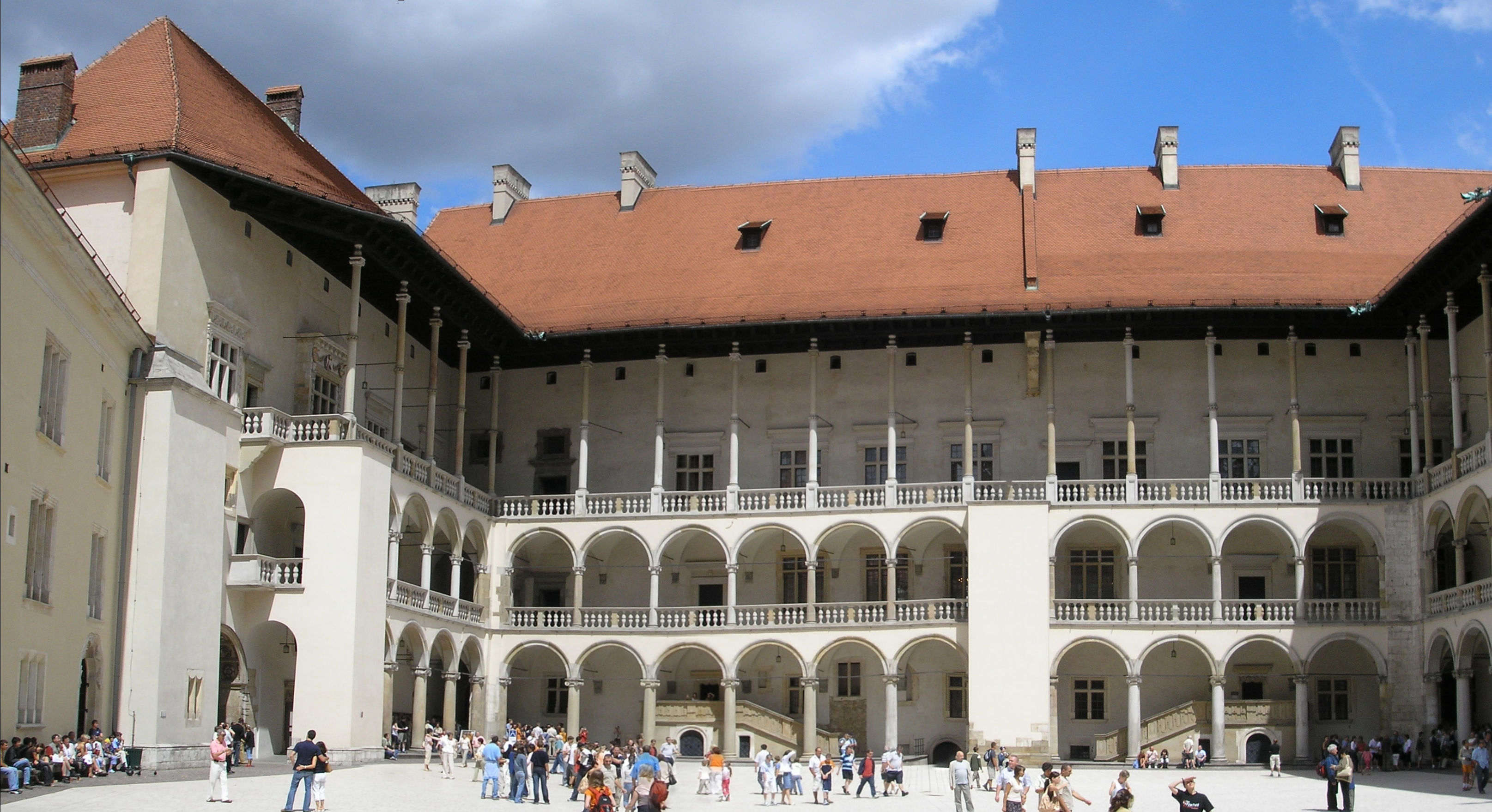 Courtyard of Wawel Royal Castle in Kraków.